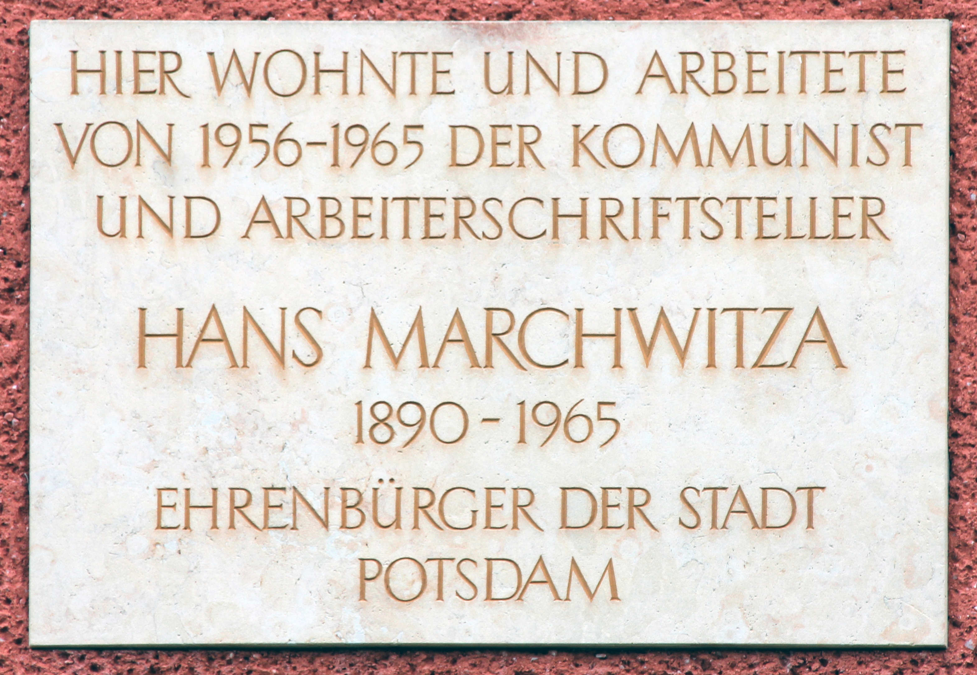 Memorial plaque, Hans Marchwitza, Rosa-Luxemburg-Straße 27, Babelsberg, Deutschland